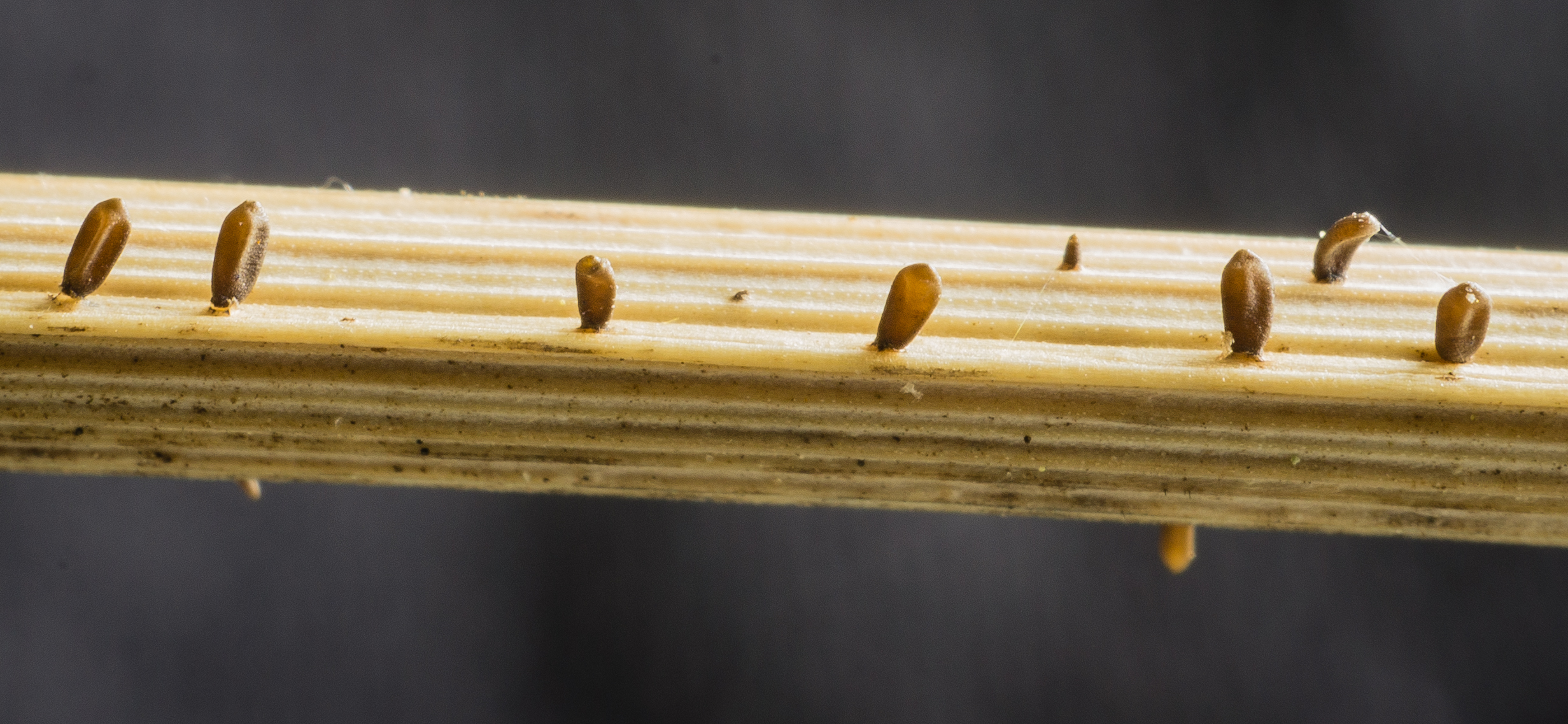 Acrospermum graminum Lib. Image location: Indian Cemetery, Husum, Washington, USA On dead grass. Height 1 mm at most. Asci ~180 × 4. Spores 1 micron thick. Recognized by sight For more information about this, see the observation page at Mushroom Observer.